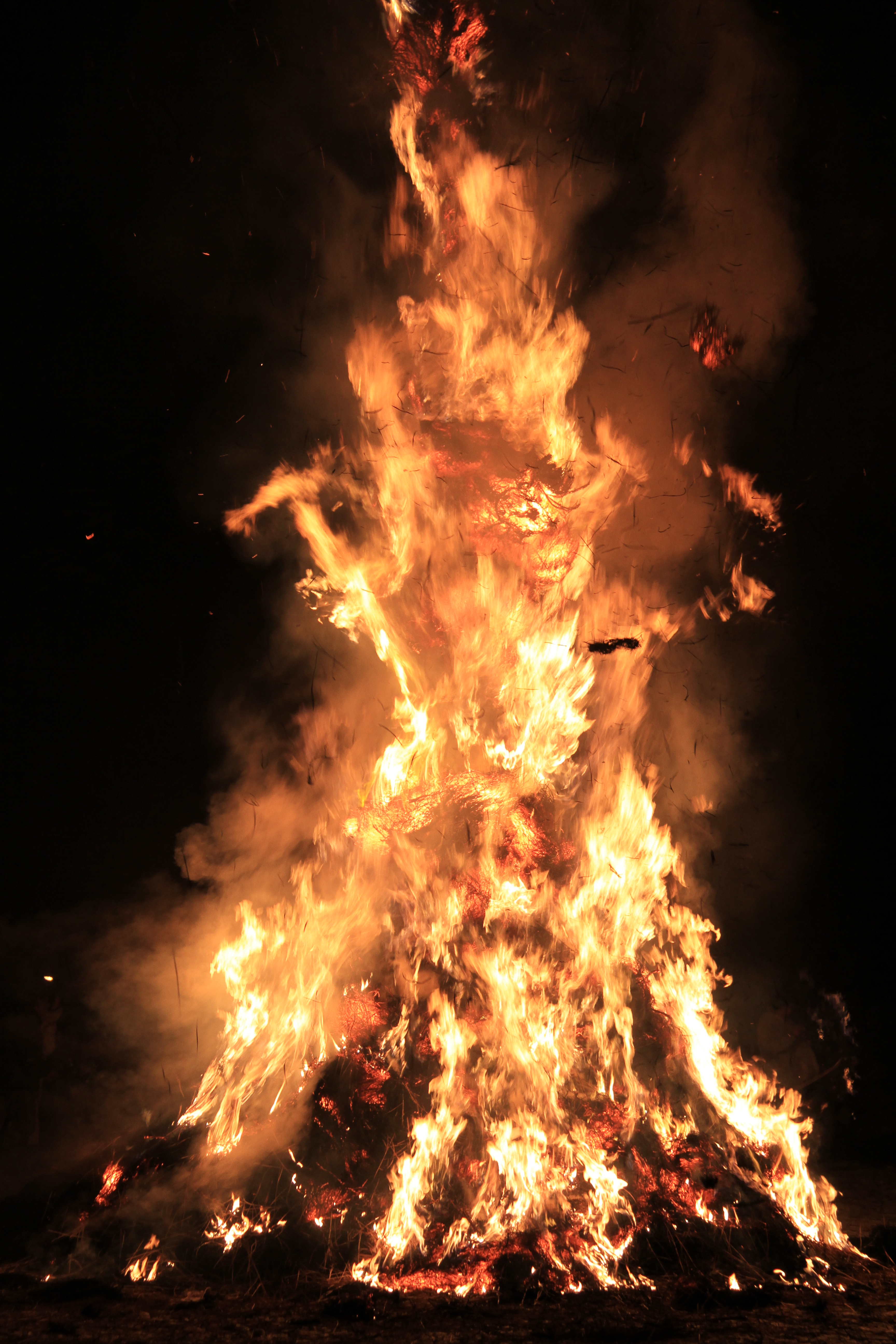 Onobori, Mishima, Onuma District, Fukushima Prefecture 969-7516, Japan 2010年2月13日に三島町町民運動場にて開催された「雪と火の祭り」内にて再現された「三島のサイノカミ」